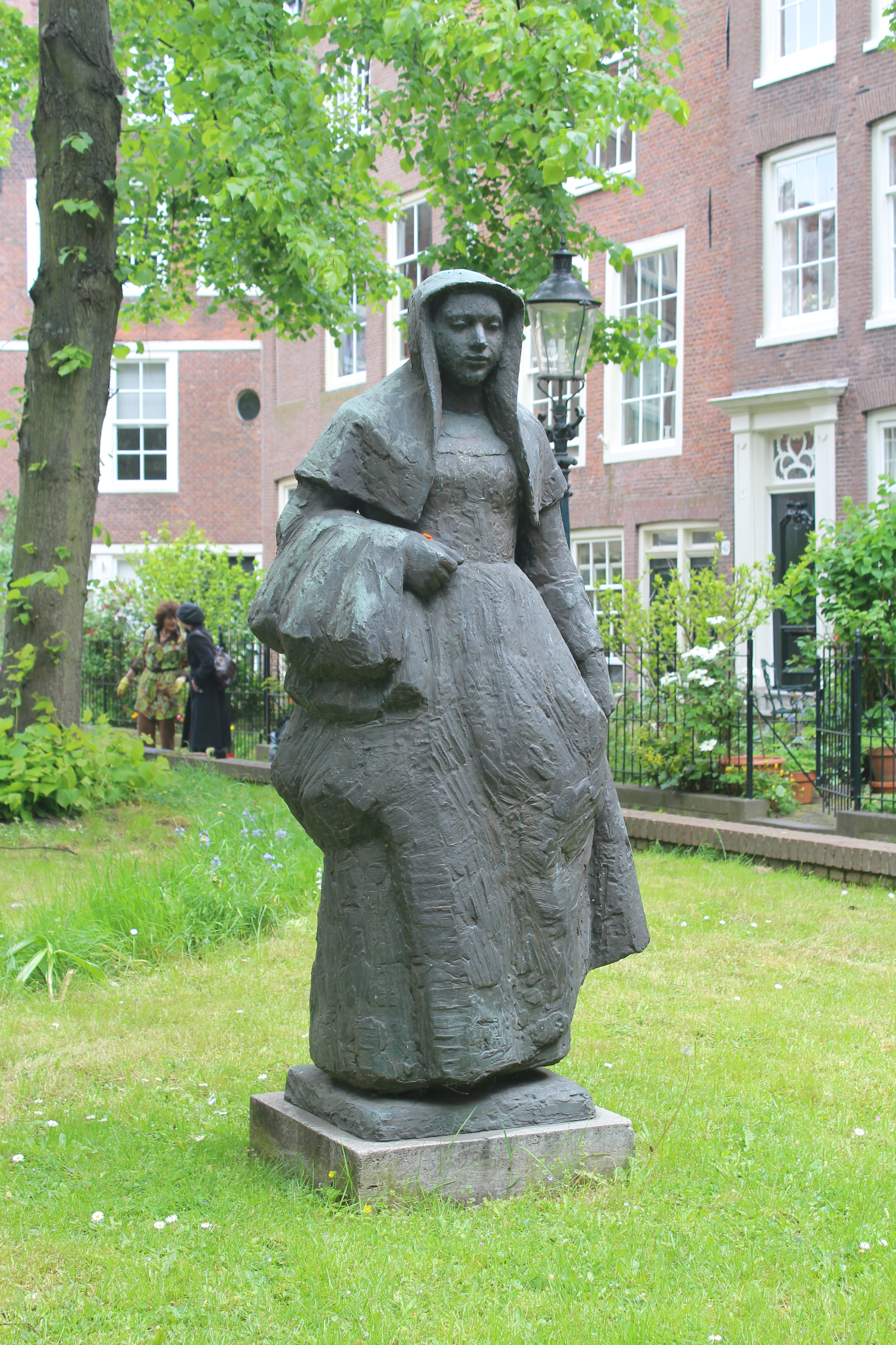 Sculpture in the courtyard of the Begijnhof, Amsterdam commemorating the Beguines by Margaretha de Goede-Taal, placed in 1984, three years after the death at the age of 84 of Sister Antonia, was the last Beguine of the Begijnhof.